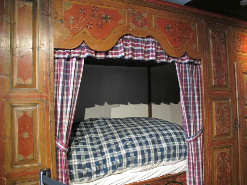 Alsatian Museum, Strasbourg, France